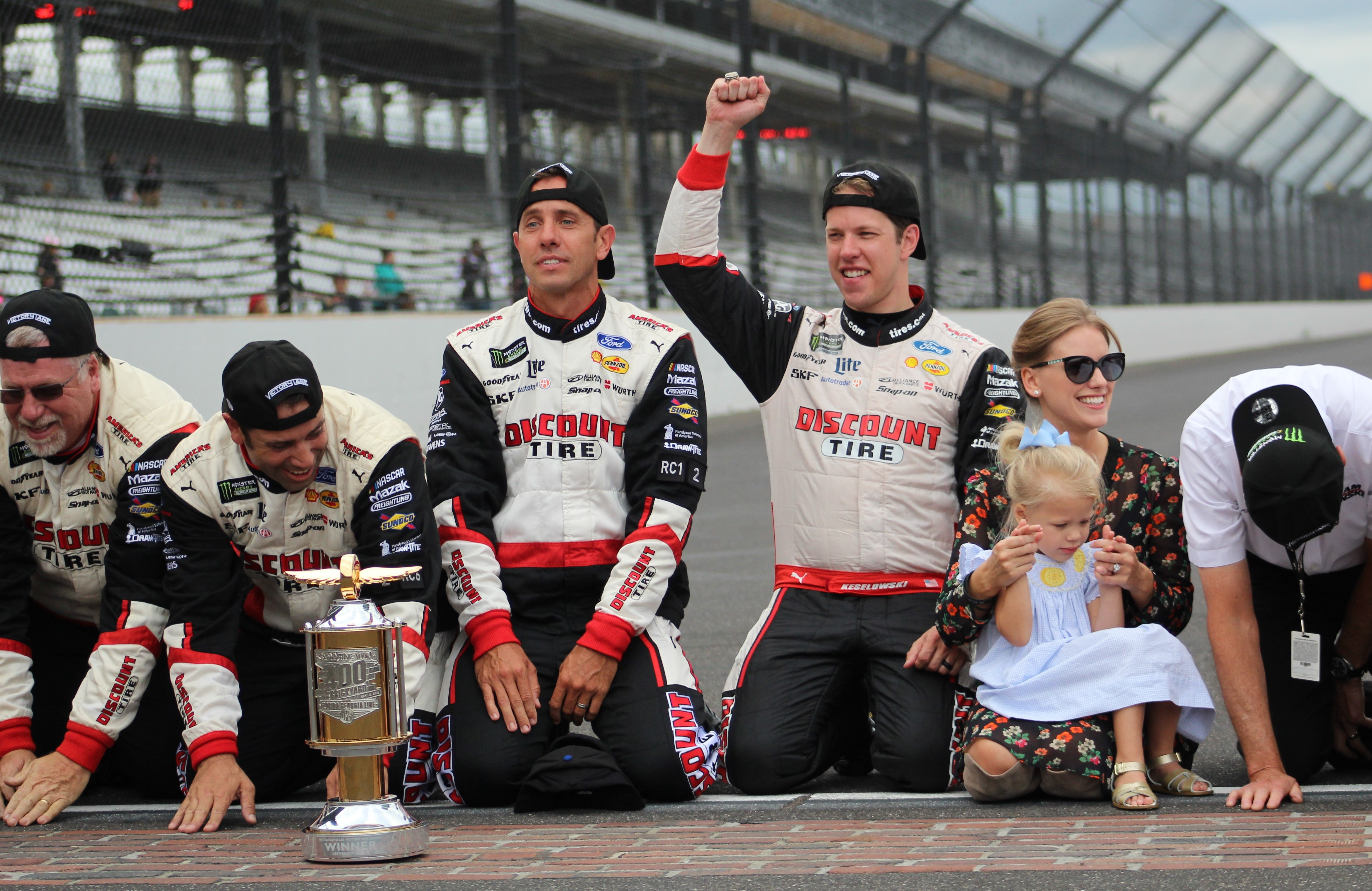 Brad Keselowski and his team celebrate after winning the Big Machine Vodka 400 at Indianapolis Motor Speedway in 2018.